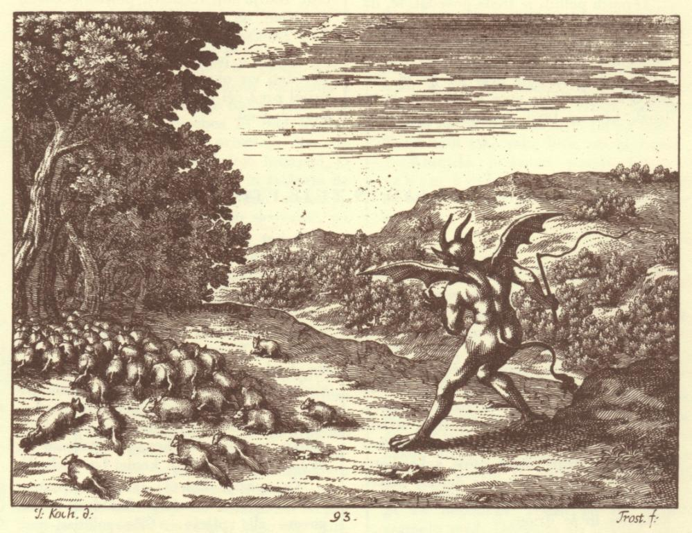 Devil grazes dormice, Technique: Copper engraving